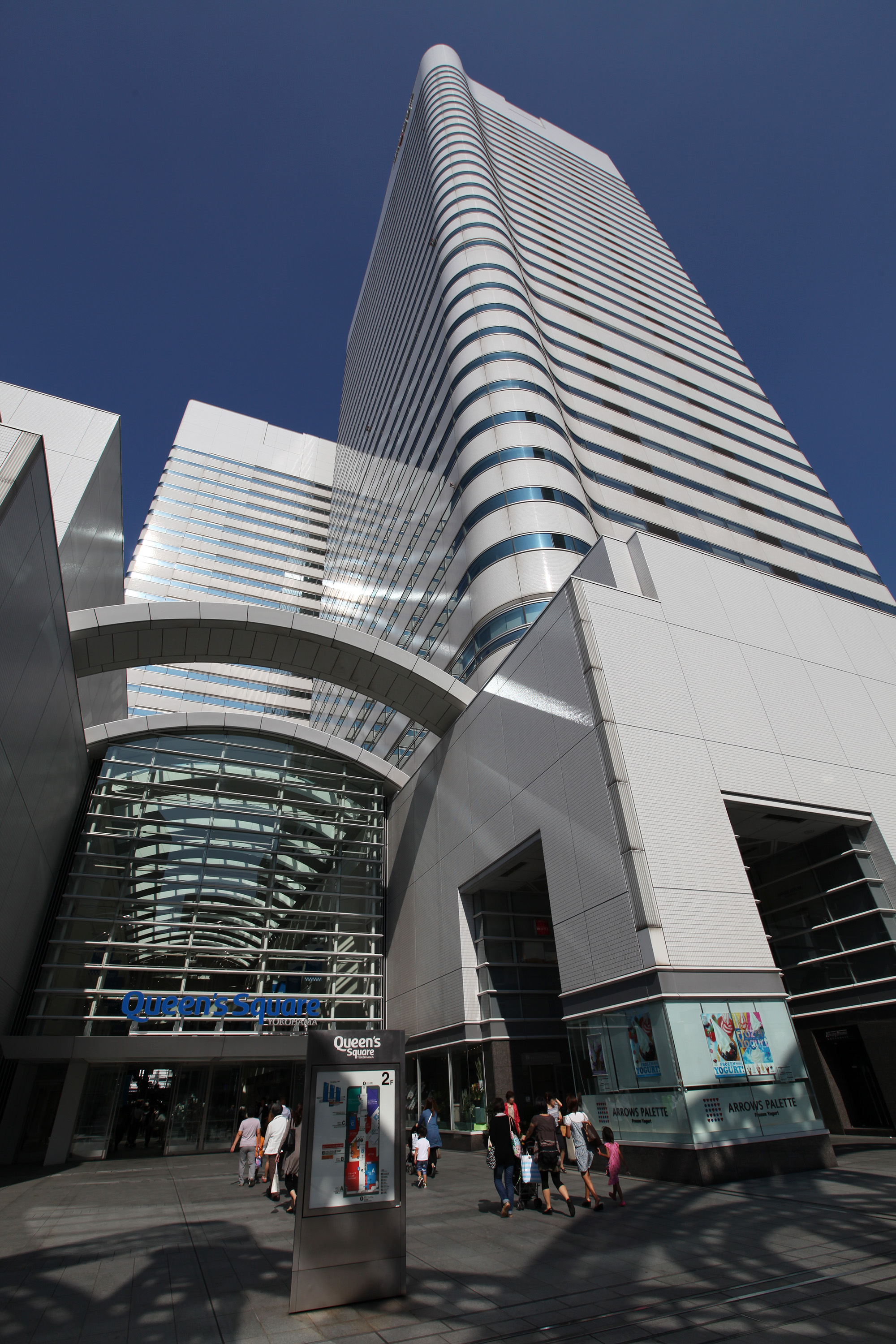 Queen's Square YOKOHAMA Queen's Tower A